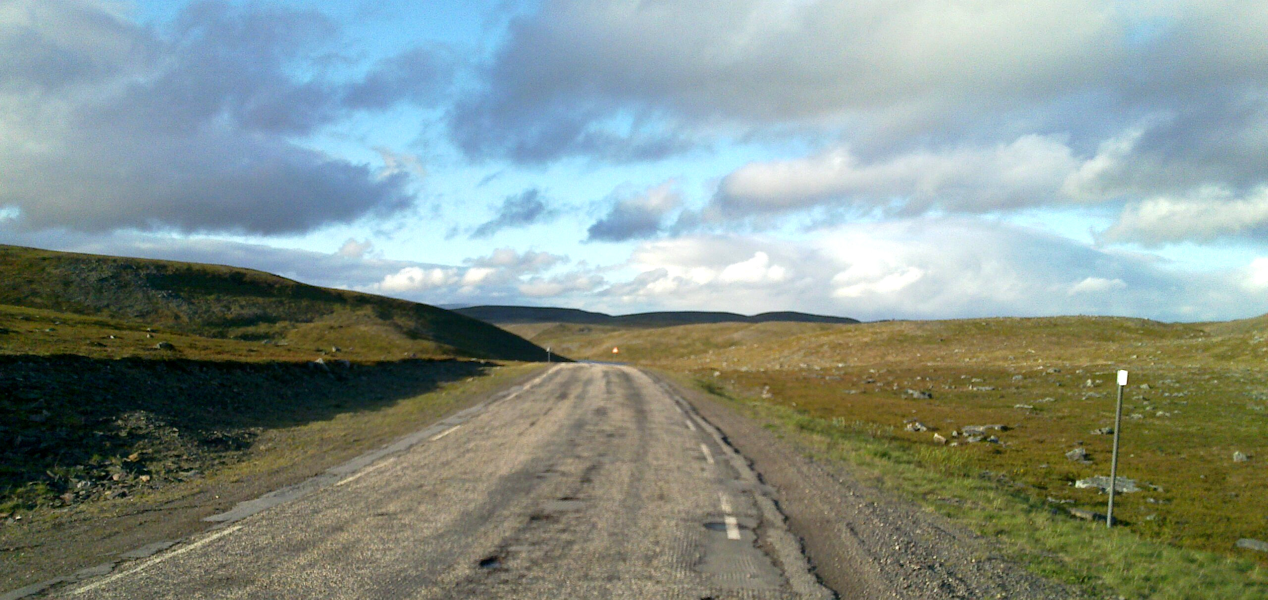 Highway N98 crossing Ifjordfjell in Finnmark / Northern Norway